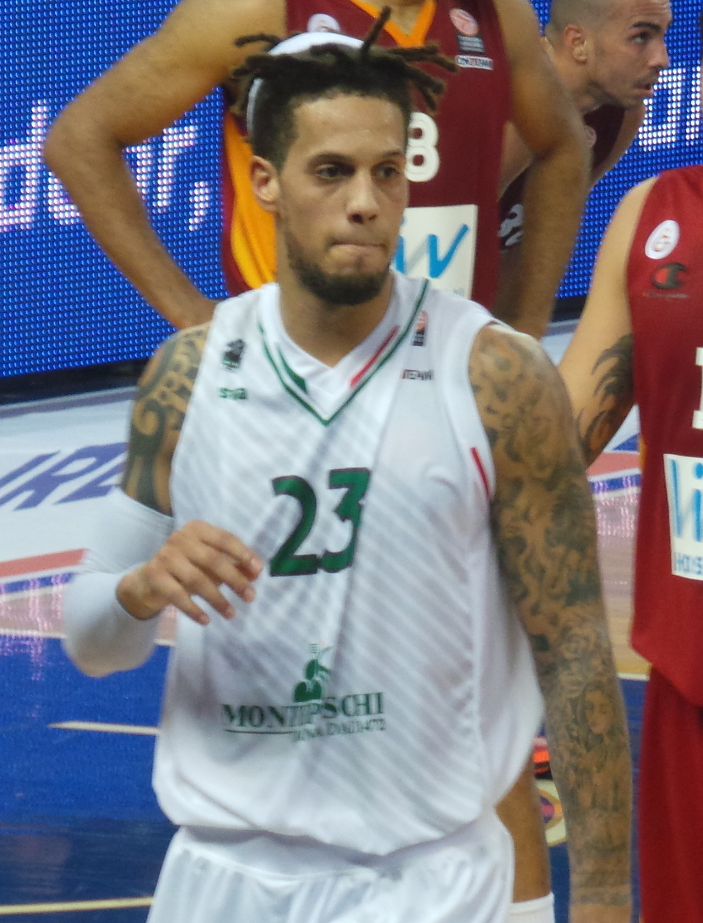 Daniel Hackett